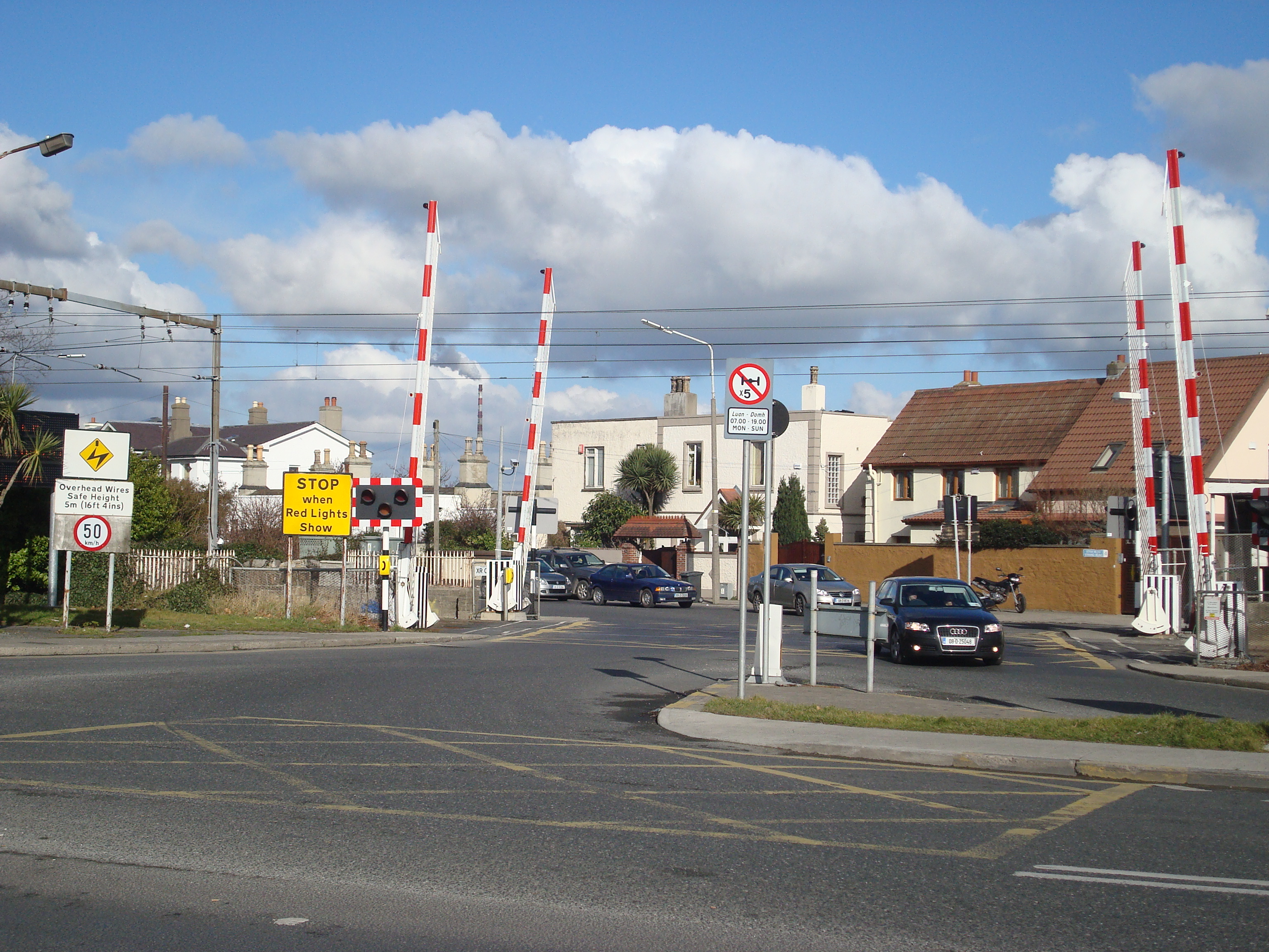 The Merrion Gates. A vital part of the train network carrying trains from the South into Dublin City Centre. These junction is also part of a key route for road traffic to cross over on their route along the coast from the South through to the Dublin Docks and beyond.